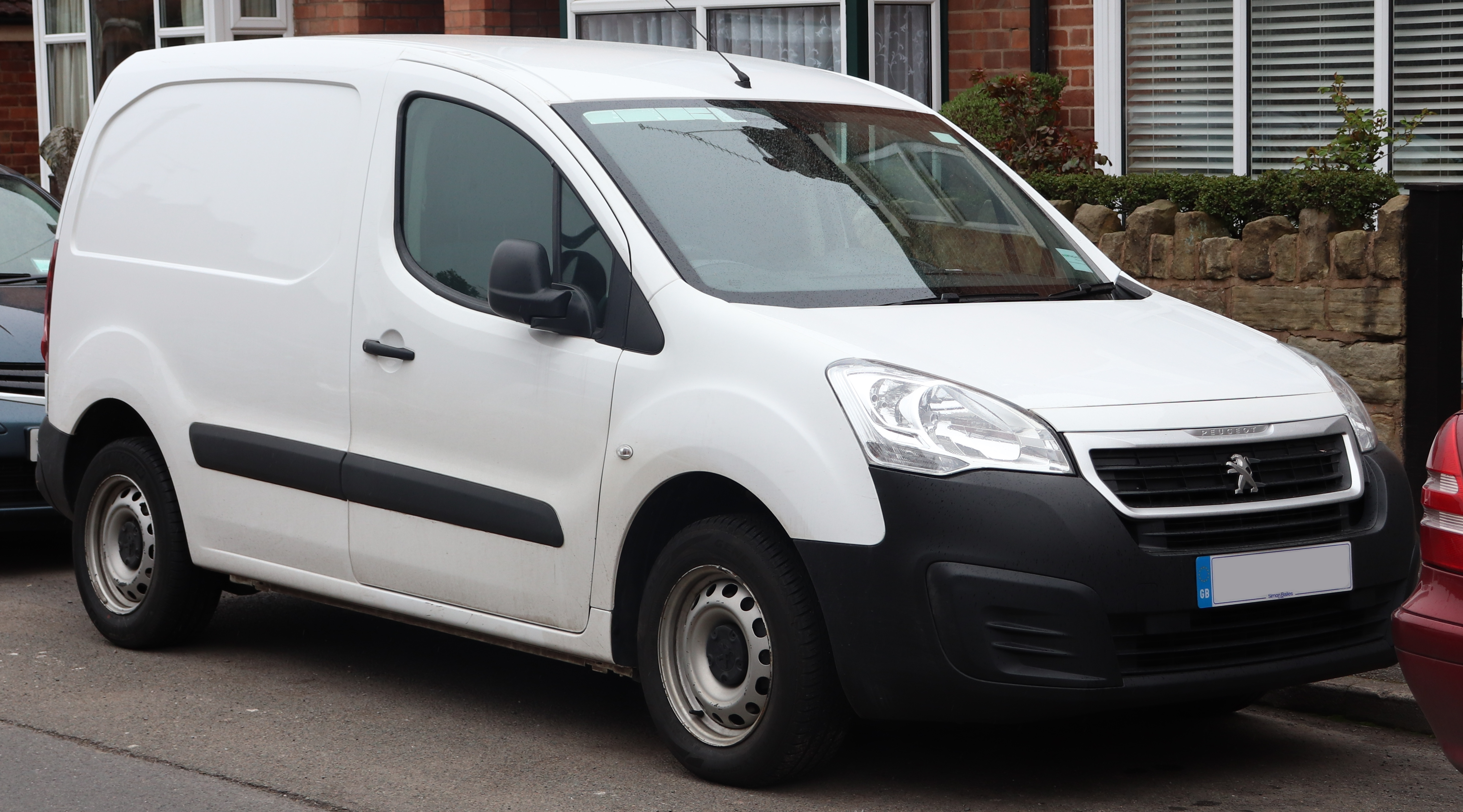 2016 Peugeot Partner 850 S L1 HDi 1.6 Front Taken in Warwick